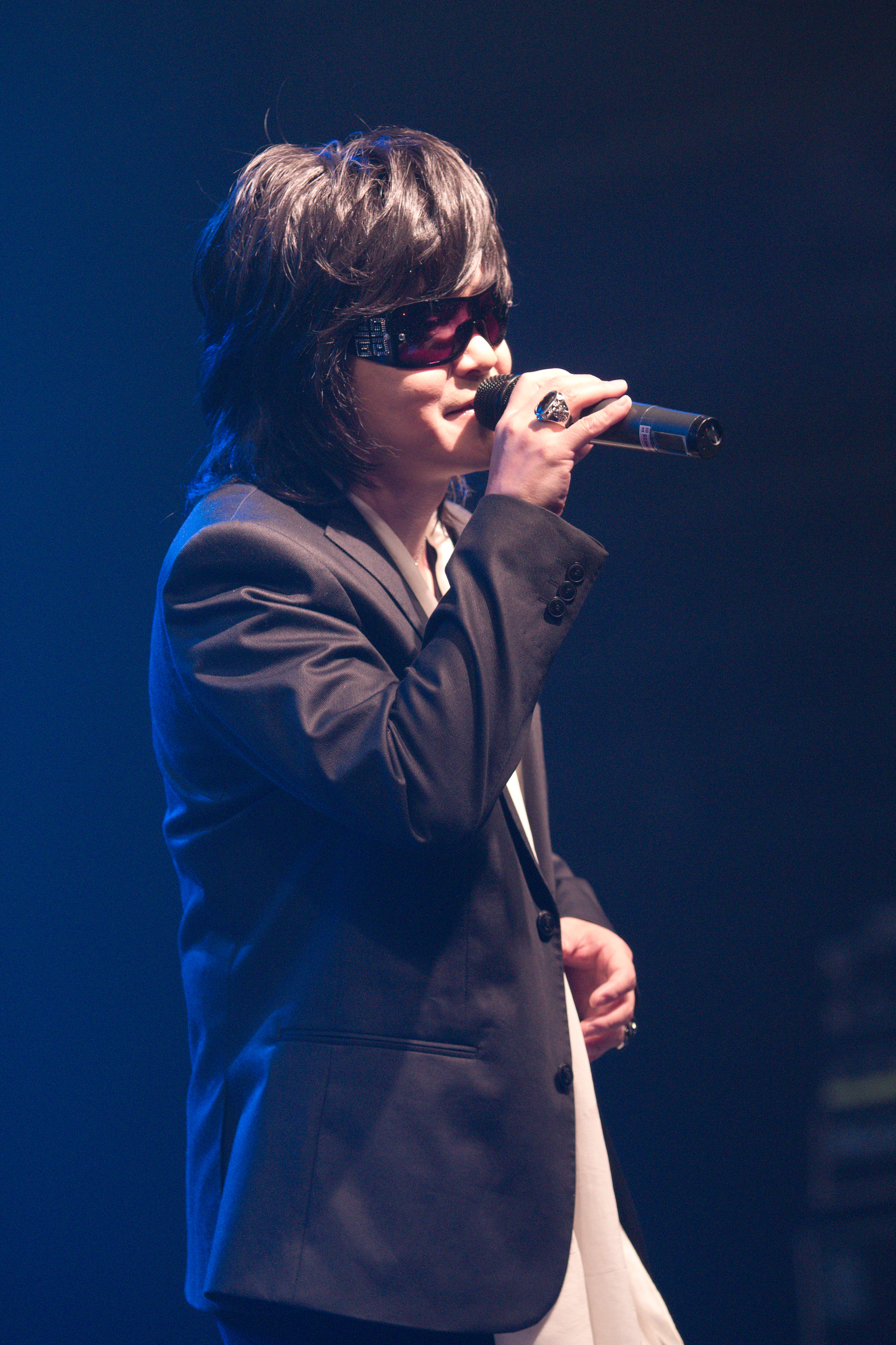 Toshi and Yoshiki, from X Japan, duets at Japan Expo 2010 (Paris, France).